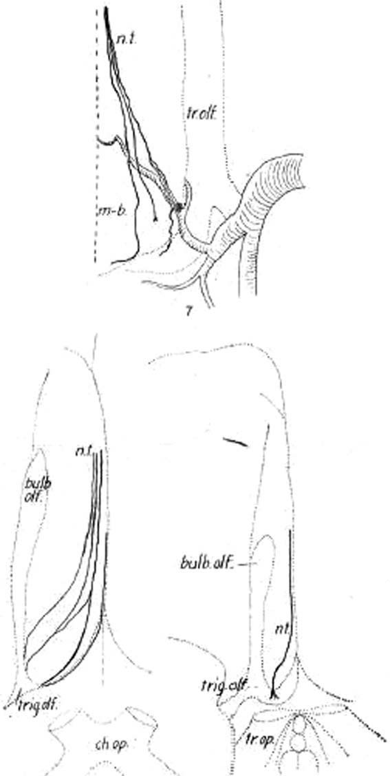 "Figures 7, 8 and 9 from Johnston (1914) showing various forms of the NT on the undersurface of the brain in three different adult human brains." cited from